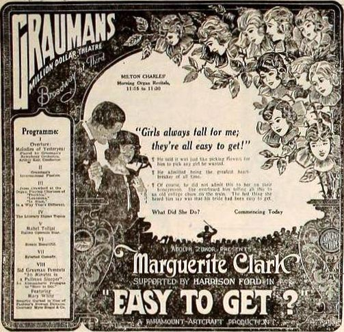 Advertisement for the American comedy film Easy to Get (1920) with Marguerite Clark, playing at the Million Dollar Theater in Los Angeles, on page 2912 of the March 27, 1920 Motion Picture News.